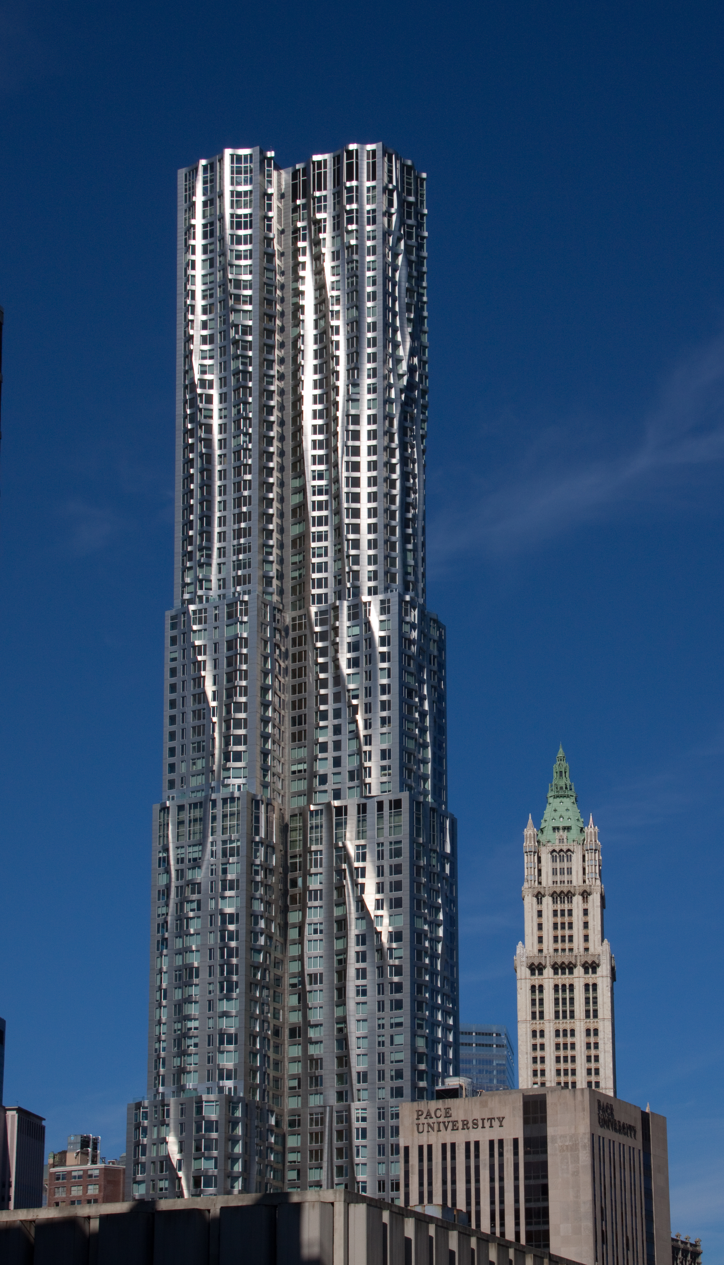 The Beekman tower 2